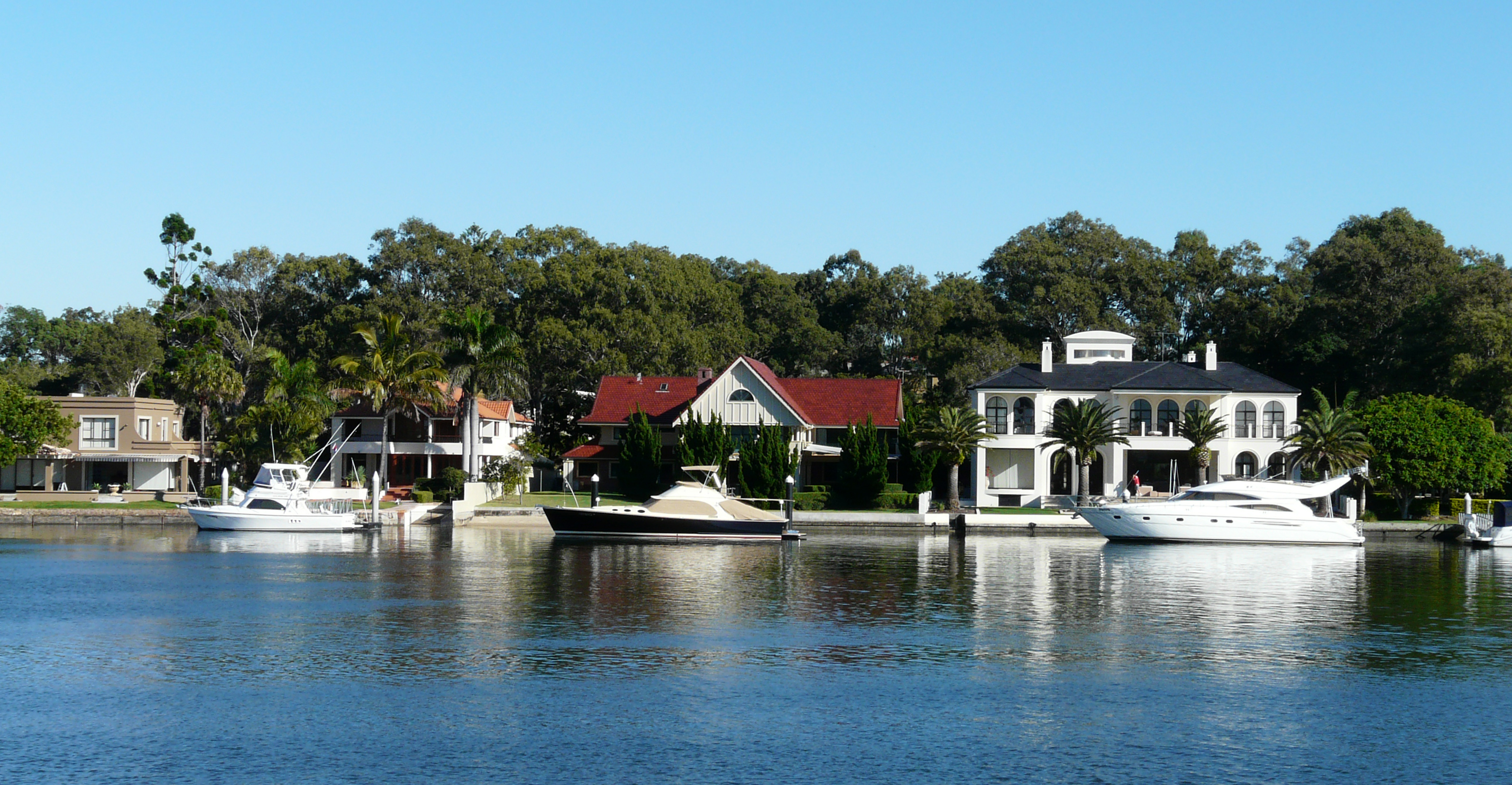 Gold Coast Canal